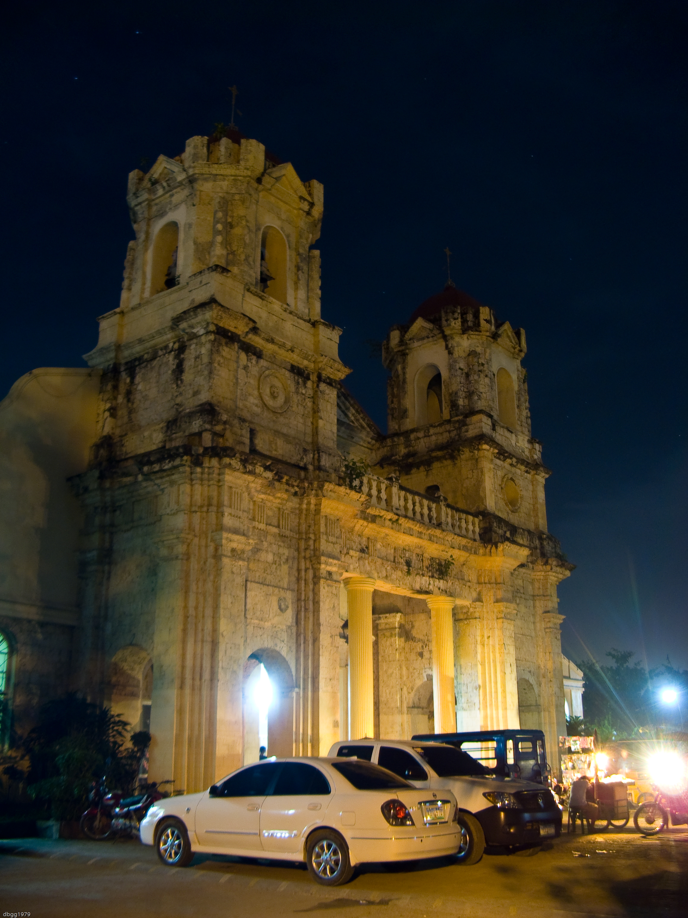 Santa Teresa Church - Talisay City, Cebu, Philippines